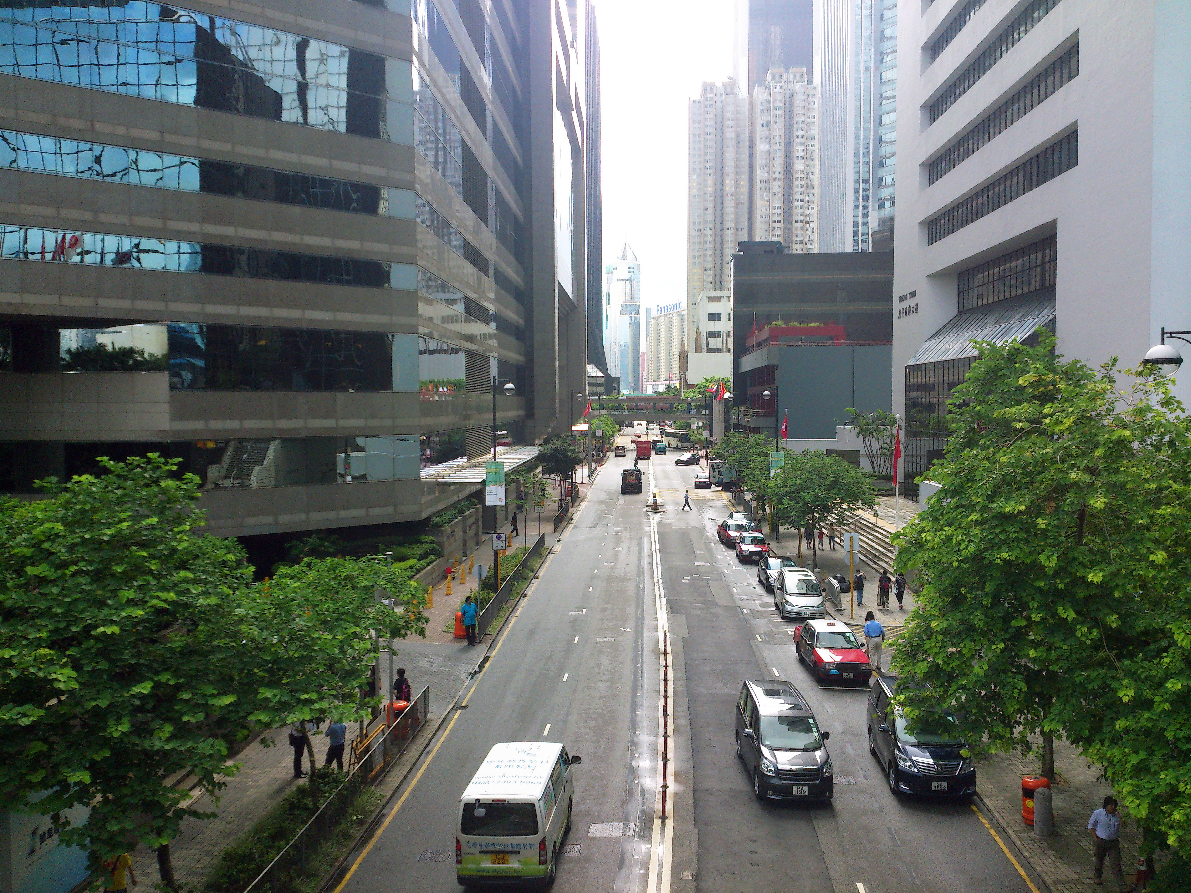 Harbour Road near Wanchai Tower